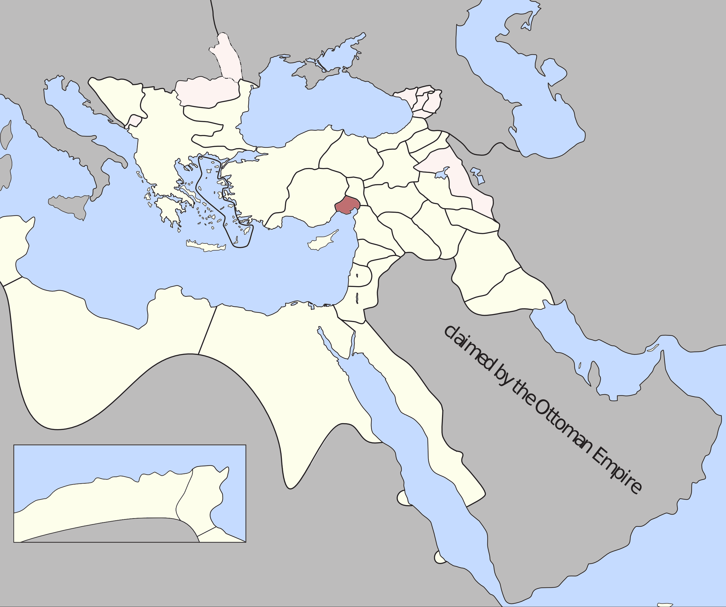 XY Eyalet, Ottoman Empire (1795). Source: A Brief History of the Late Ottoman Empire at Google Books By M. Sukru Hanioglu, Figure 1